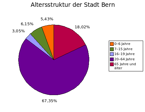 Age structure of the city of Berne (Switzerland) in 2007